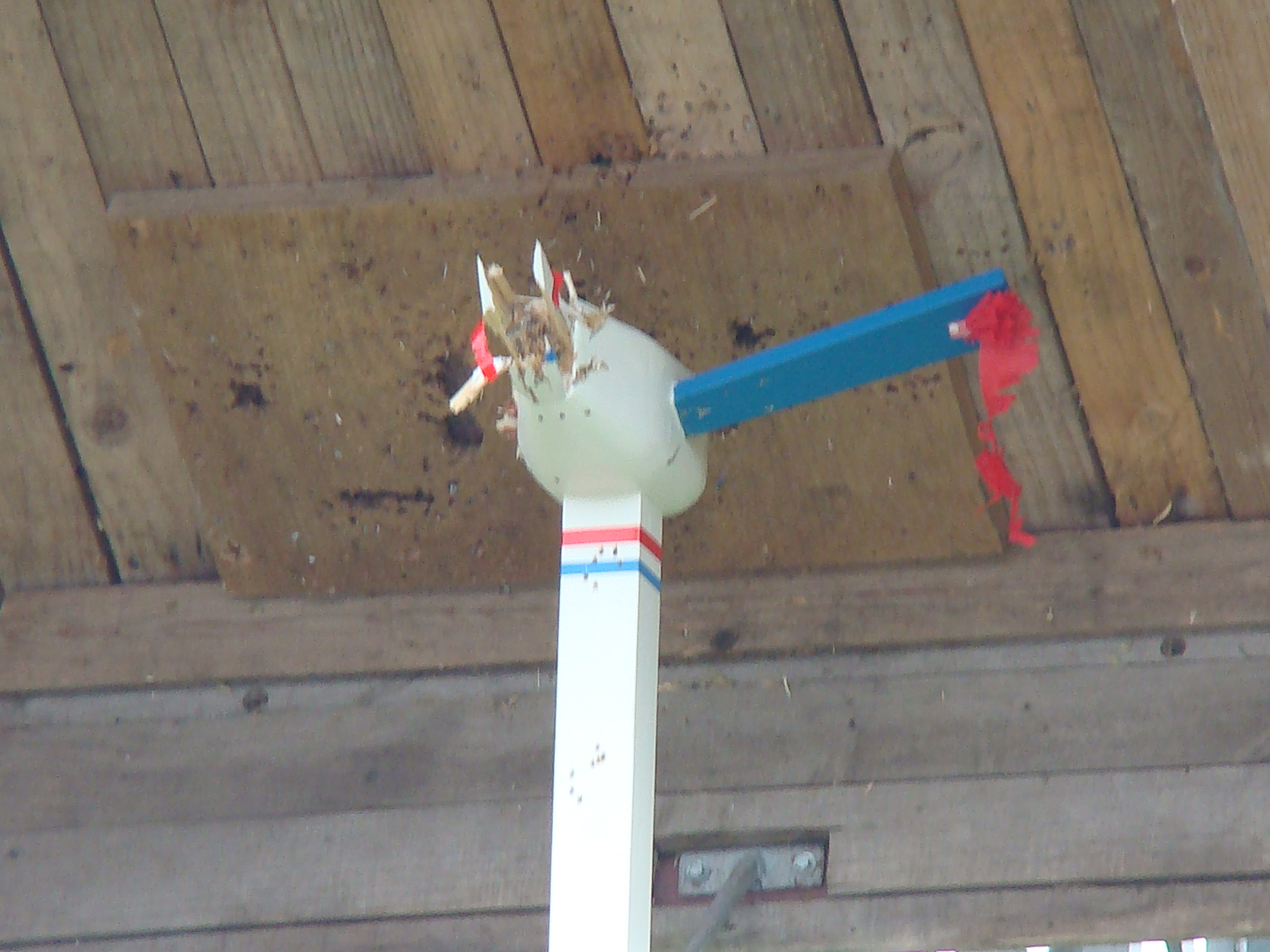 "Birdschooting" tradition in the Netherlands, the "bird" is made from wood.